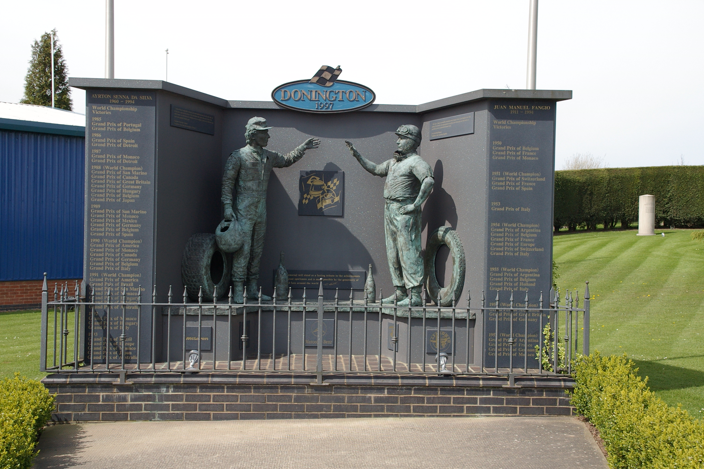 The monument to Ayrton Senna and Juan Manuel Fangio in the grounds of the Donington Grand Prix Collection.